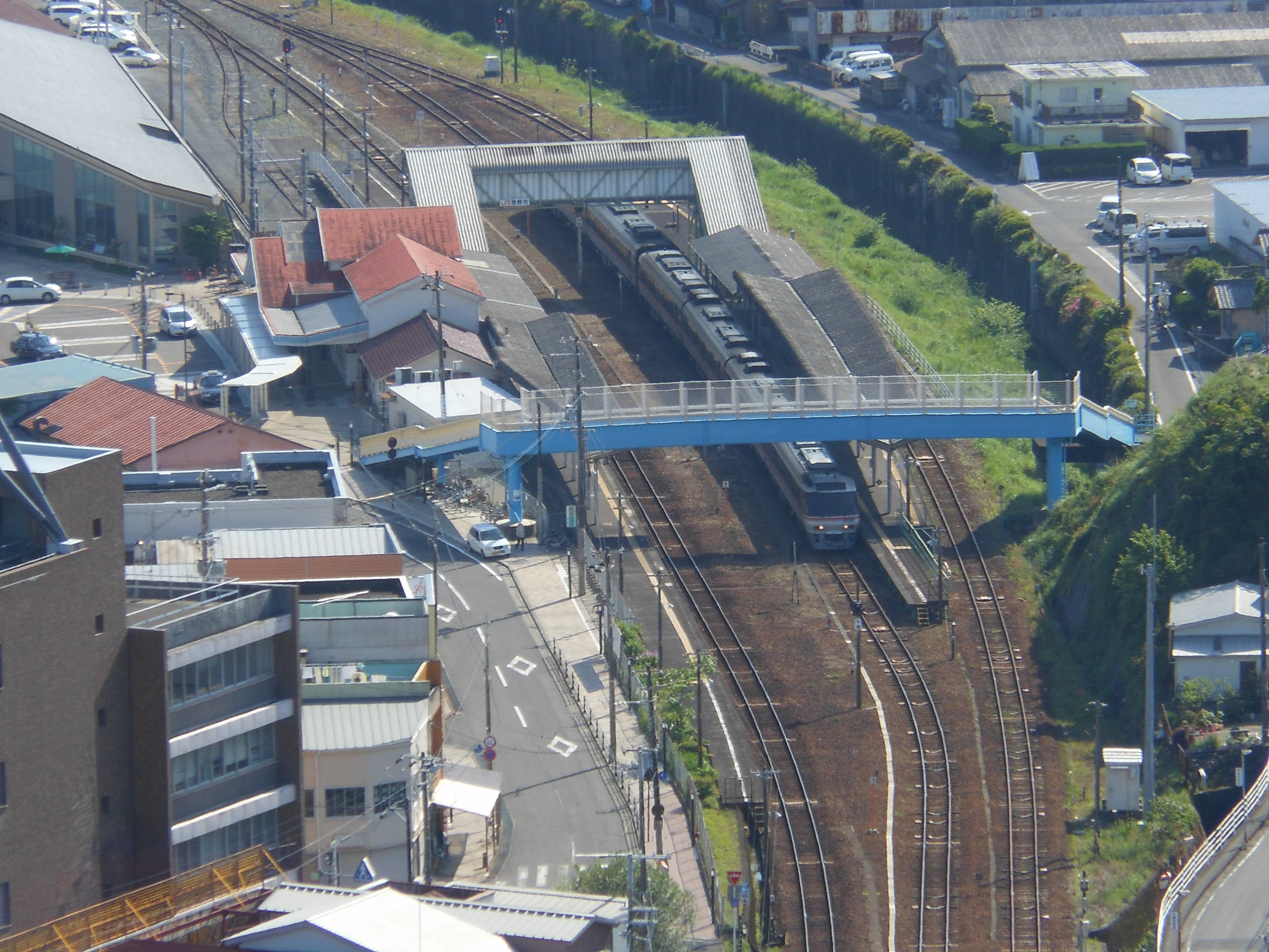 This is a panorama photo of JR Kisei line Kumanoshi station in Kumano, Mie, Japan.